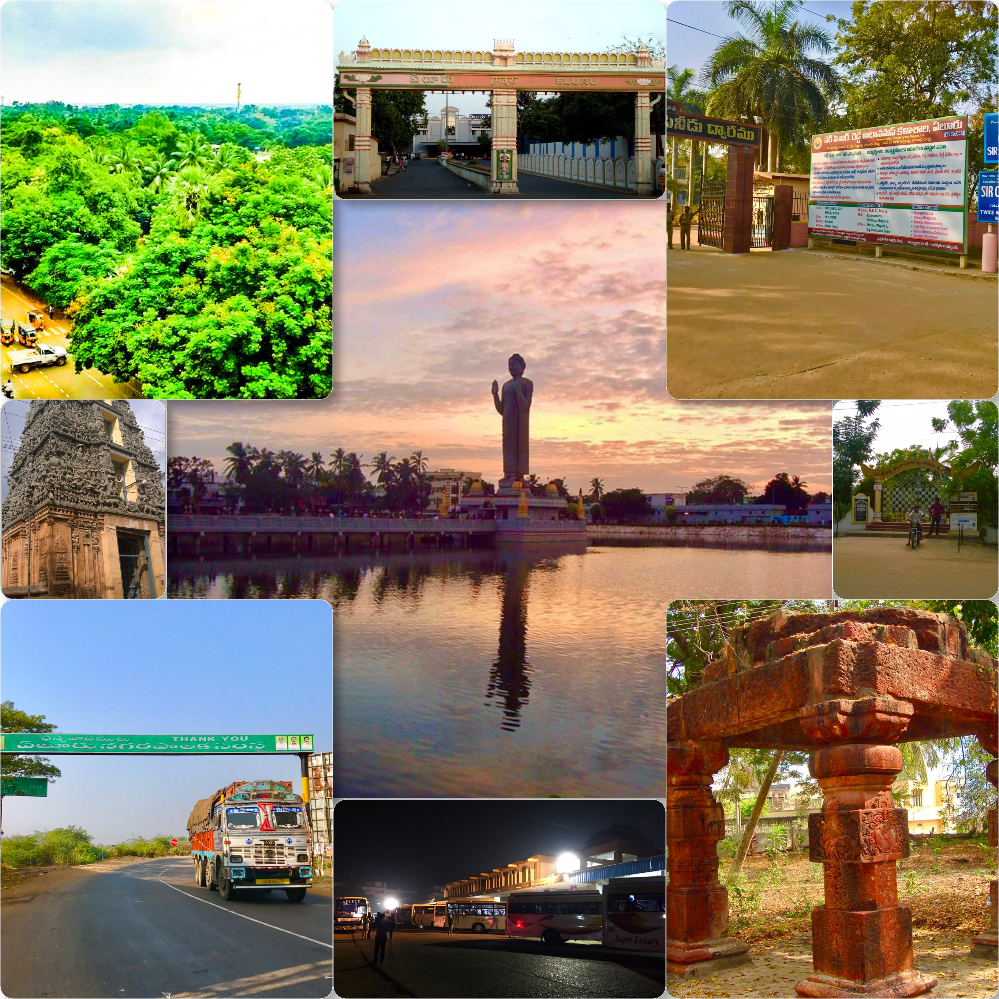 Montage of Eluru city